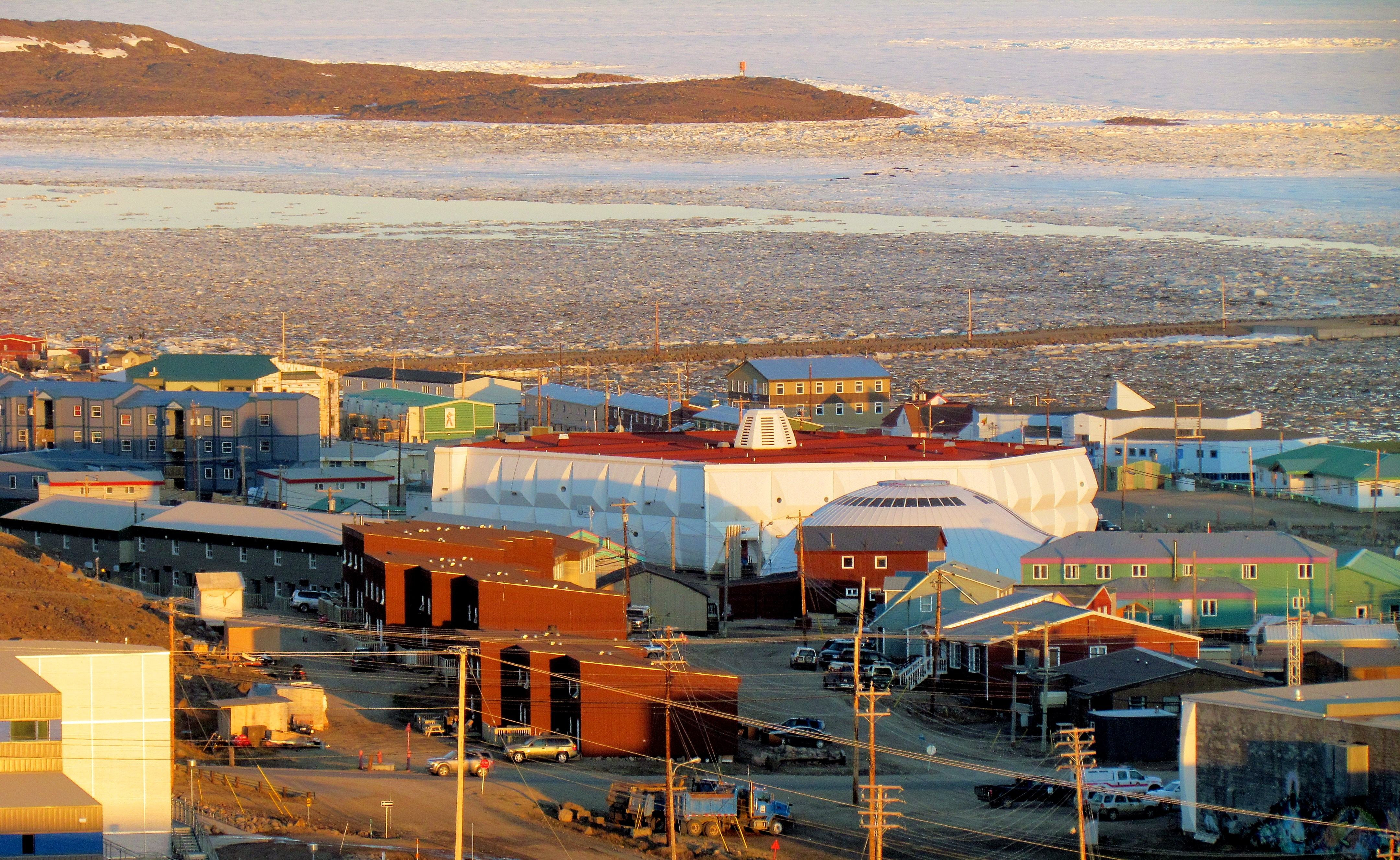 City of Iqaluit.